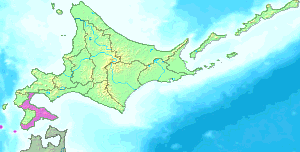 Oshima shinkokyoku subpref